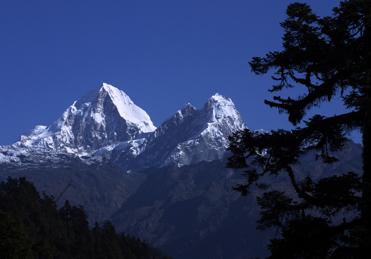 Dorje Lakpa mountain in Nepal, from SW direction